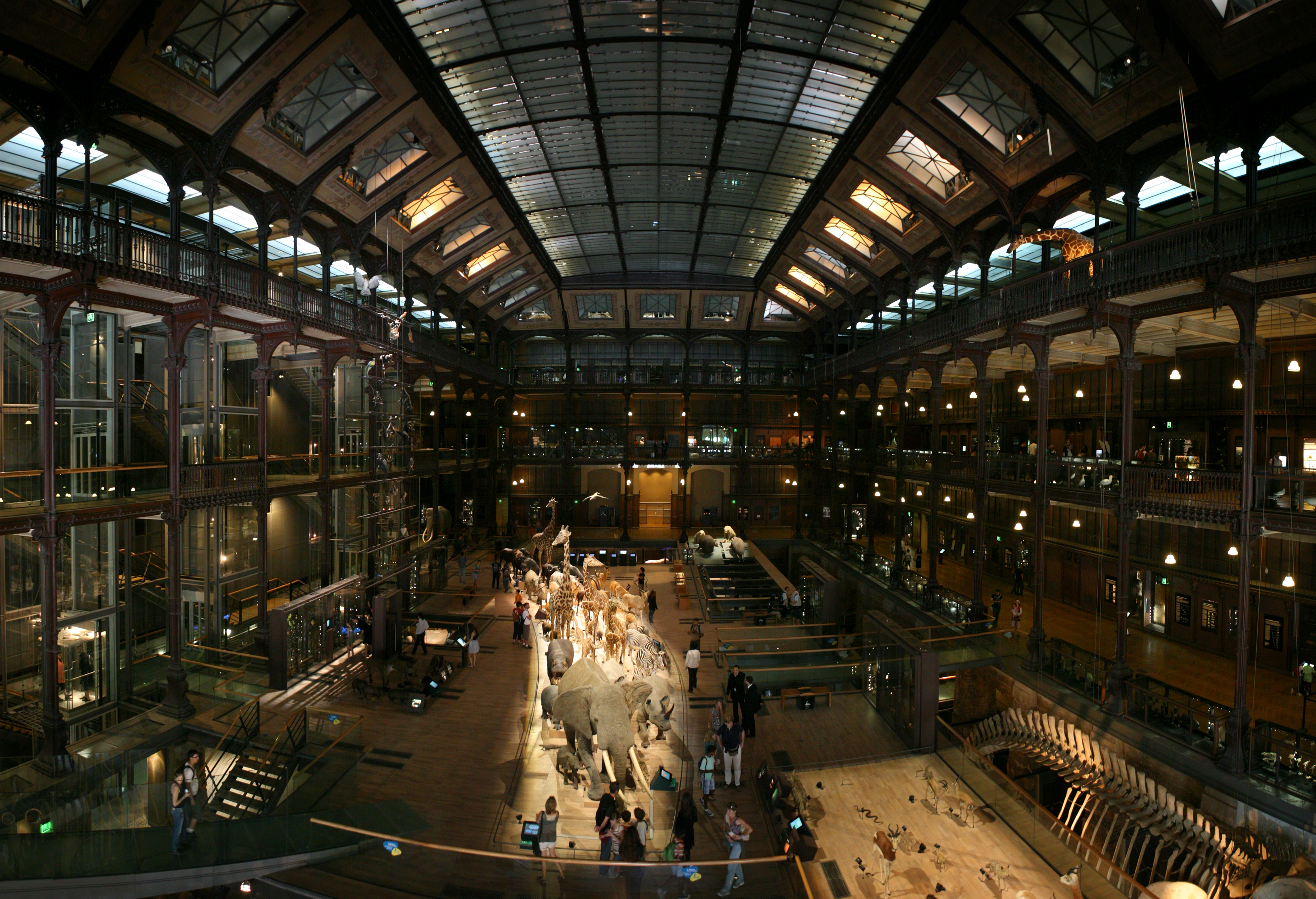 Grand Gallery of Evolution in the National Museum of Natural History in Paris, France. Panoramic view of the central space.